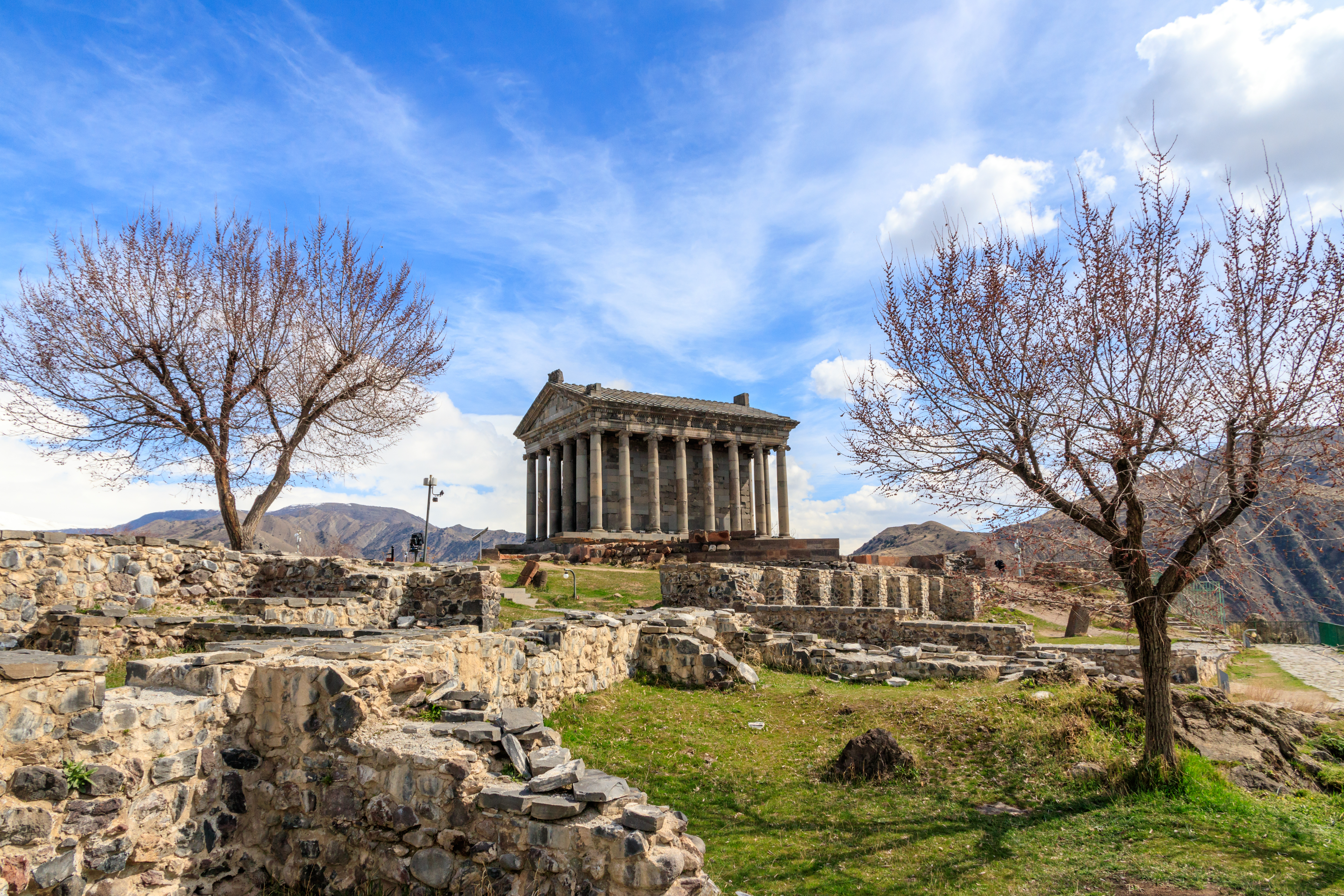 Garni Temple